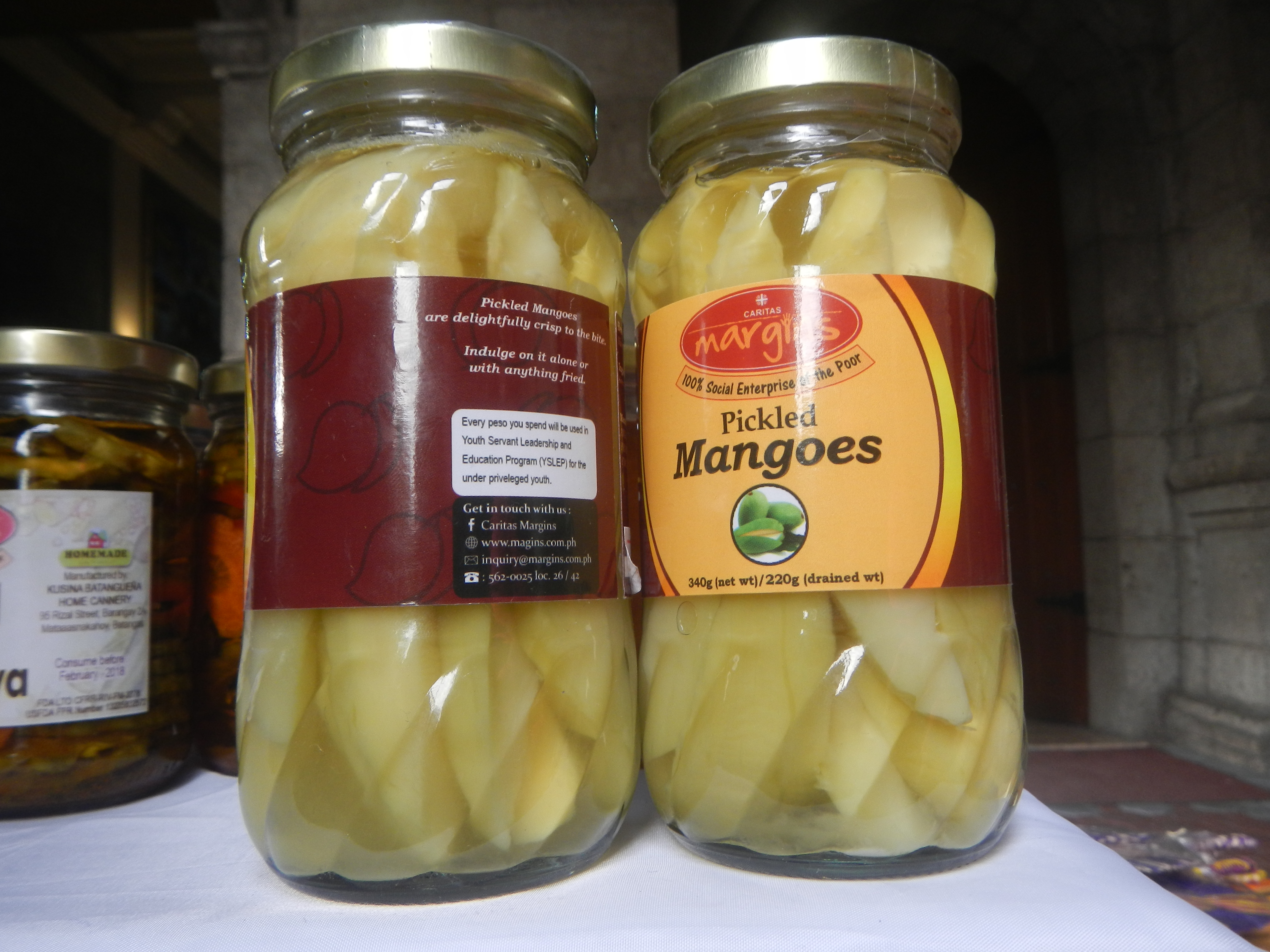 Burong mangga Pateros Catholic School Pateros Church Santa Marta de Pateros Roman Catholic Diocese of Pasig List of barangays of Metro Manila, Legislative district of Pateros–Taguig Barangay Aguho 14°32'35"N 121°3'50"E Poblacion Poblacion 14°32'40"N 121°4'0"E Santa Ana 14°32'40"N 121°4'22"E Pateros, Metro Manila Metro Manila Pateros Bridge 14°32'45"N 121°3'54"E B. Morcilla Street 14°32'41"N 121°4'1"E (Note: Judge Florentino Floro, the owner, to repeat, Donor Florentino Floro of all these photos Judge Floro hereby donate gratuitously, freely and unconditionally all these photos to and for Wikimedia Commons, exclusively, for public use of the public domain, and again without any condition whatsoever).